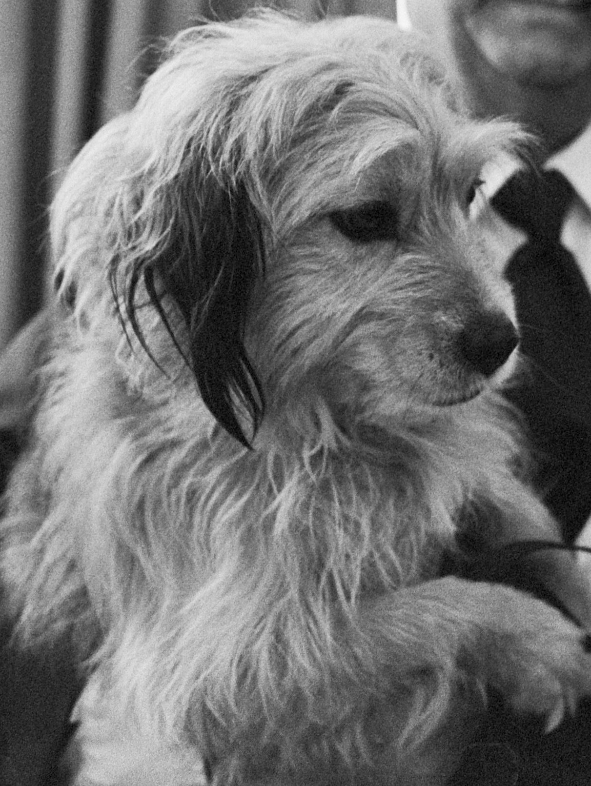 Press conference with film dog Benji in the Amstel Hotel in Amsterdam.